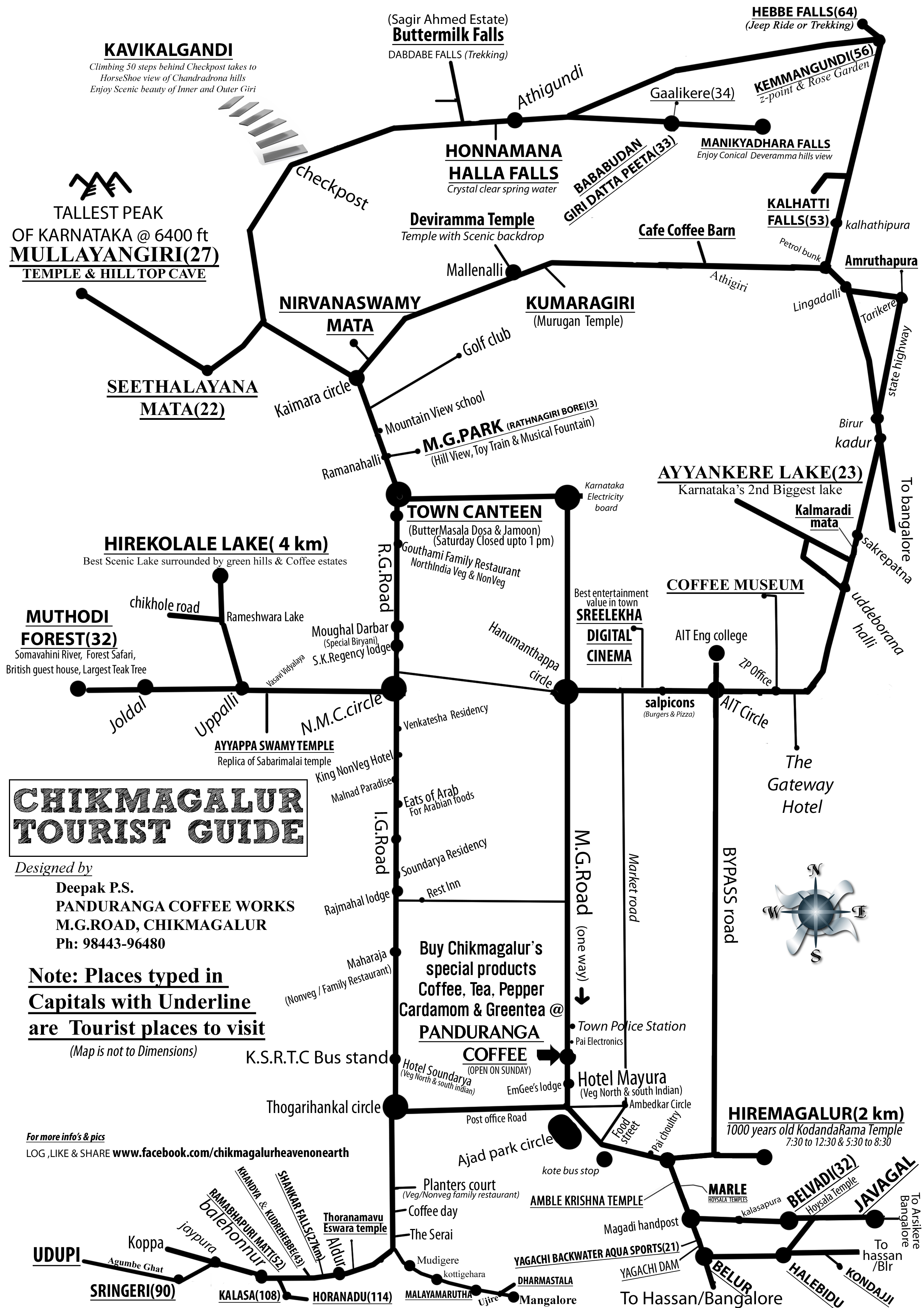 tourist Places to visit in Chikmagalur